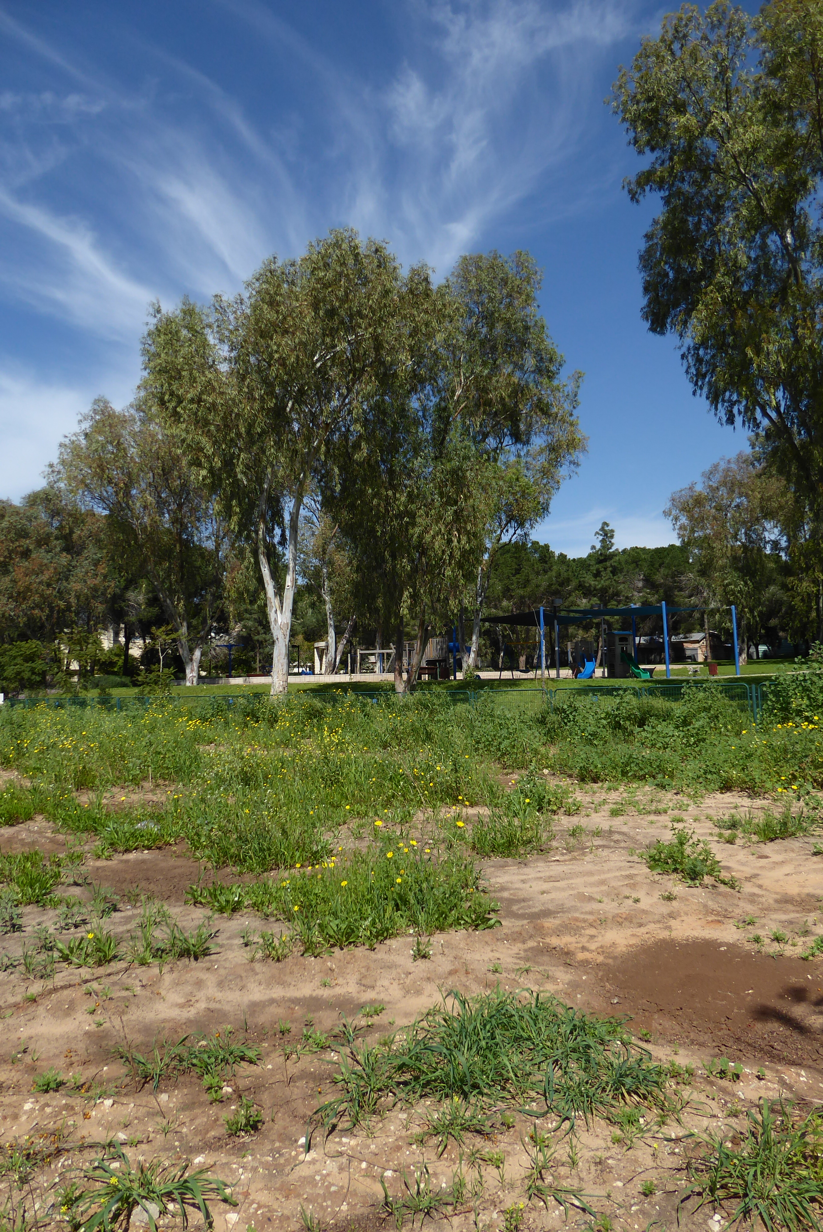 Savion blossoms